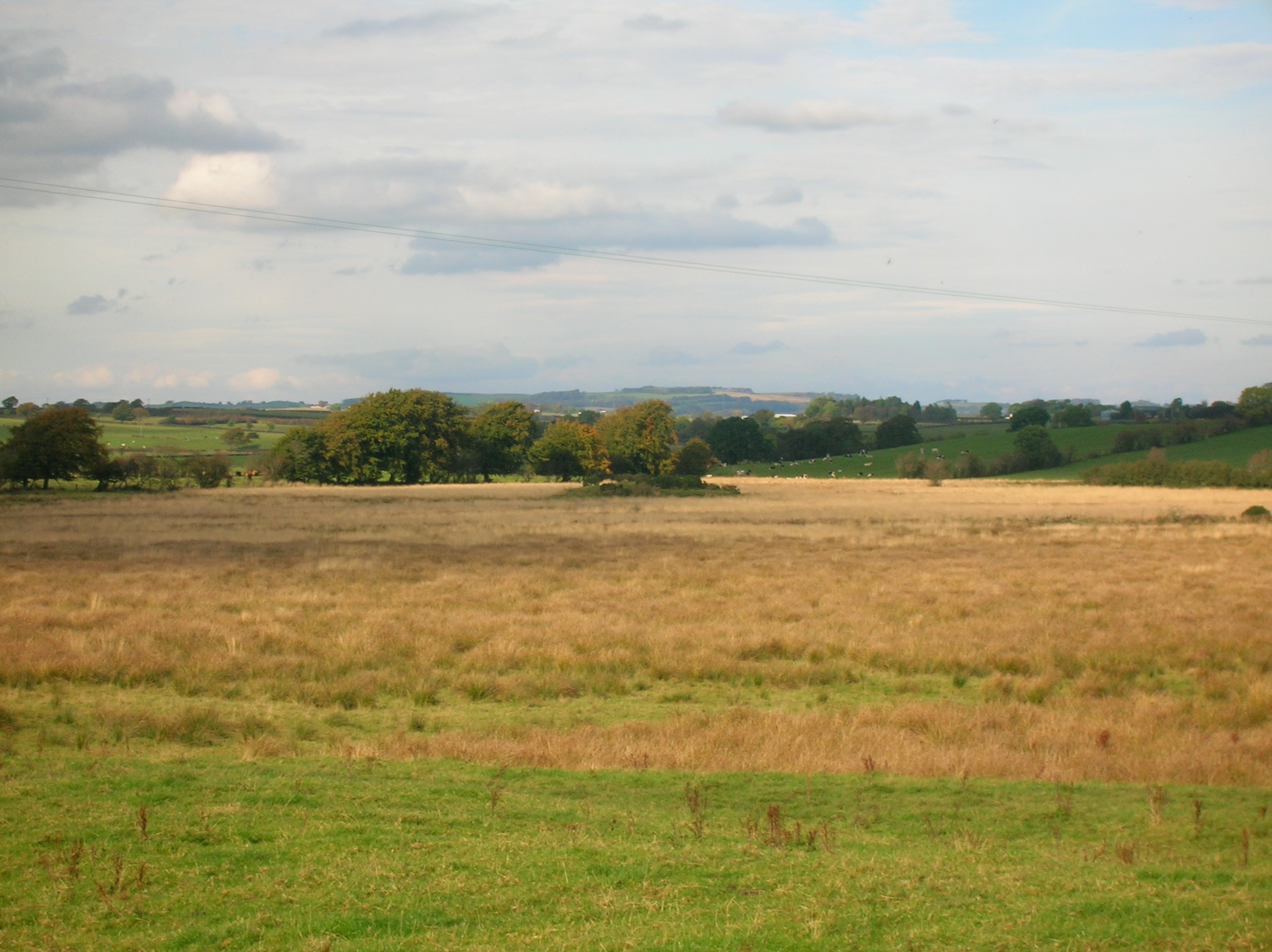 The possible Moot hill at Kennox Moss, North Ayrshire, Scotland. It is called Wood mound and is close to the Gallowayford over the Glazert Water.